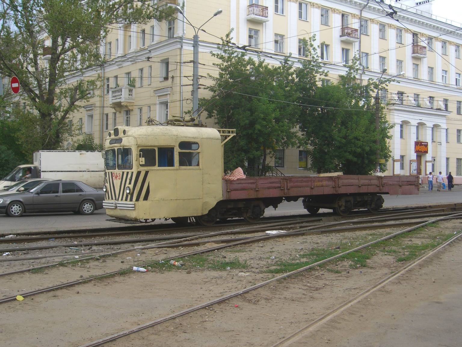 Service freight tram, based on MTV-82 type tram in Nizhniy Novgorod, Russia.